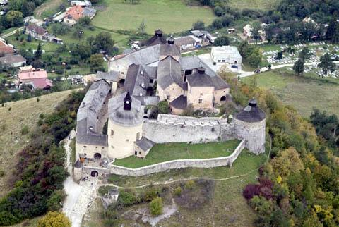 Krásna Hôrka, castle, Slovakia, aerial photography